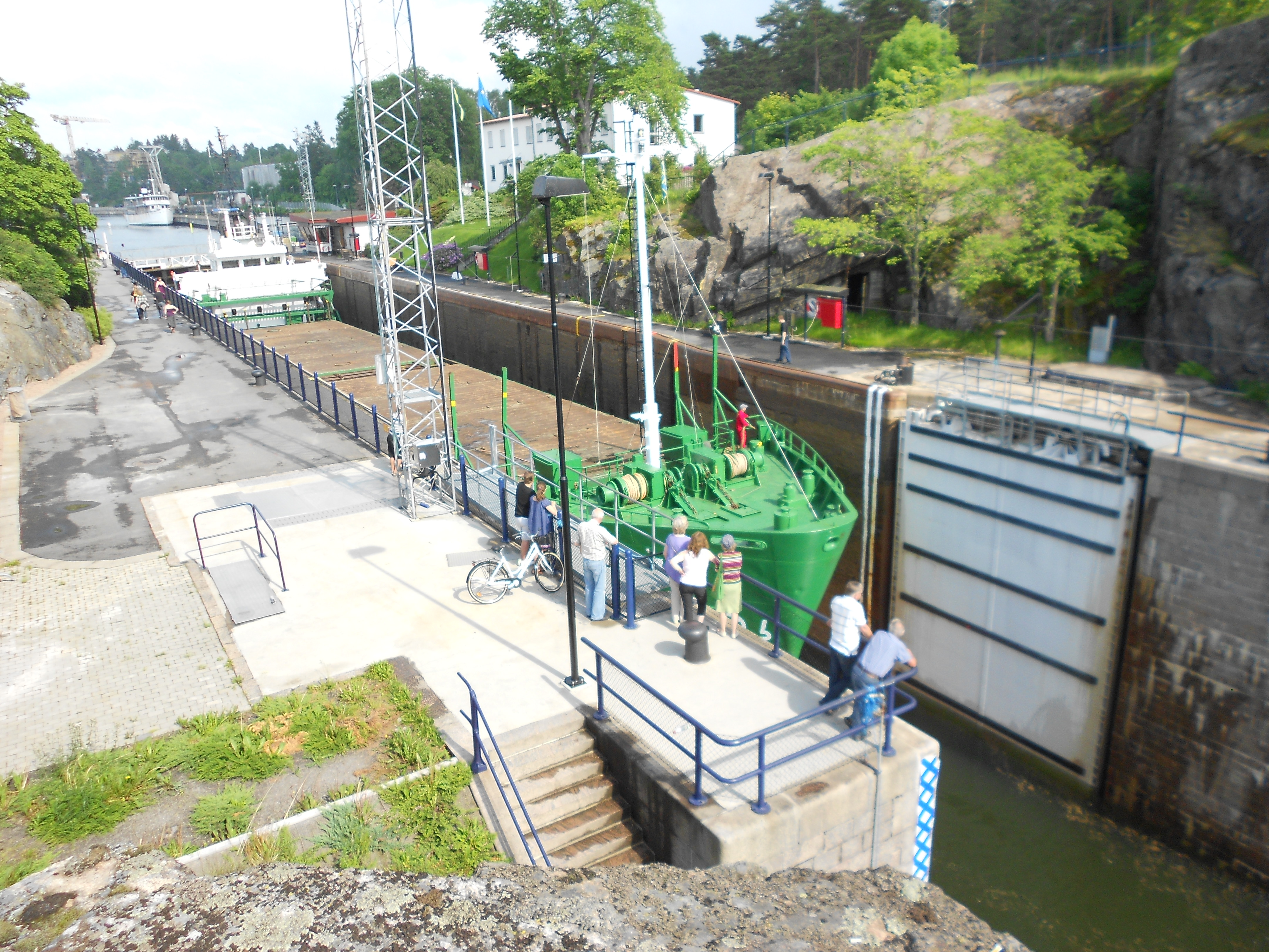 Ship in empty lock in Trollhättan, Sweden.